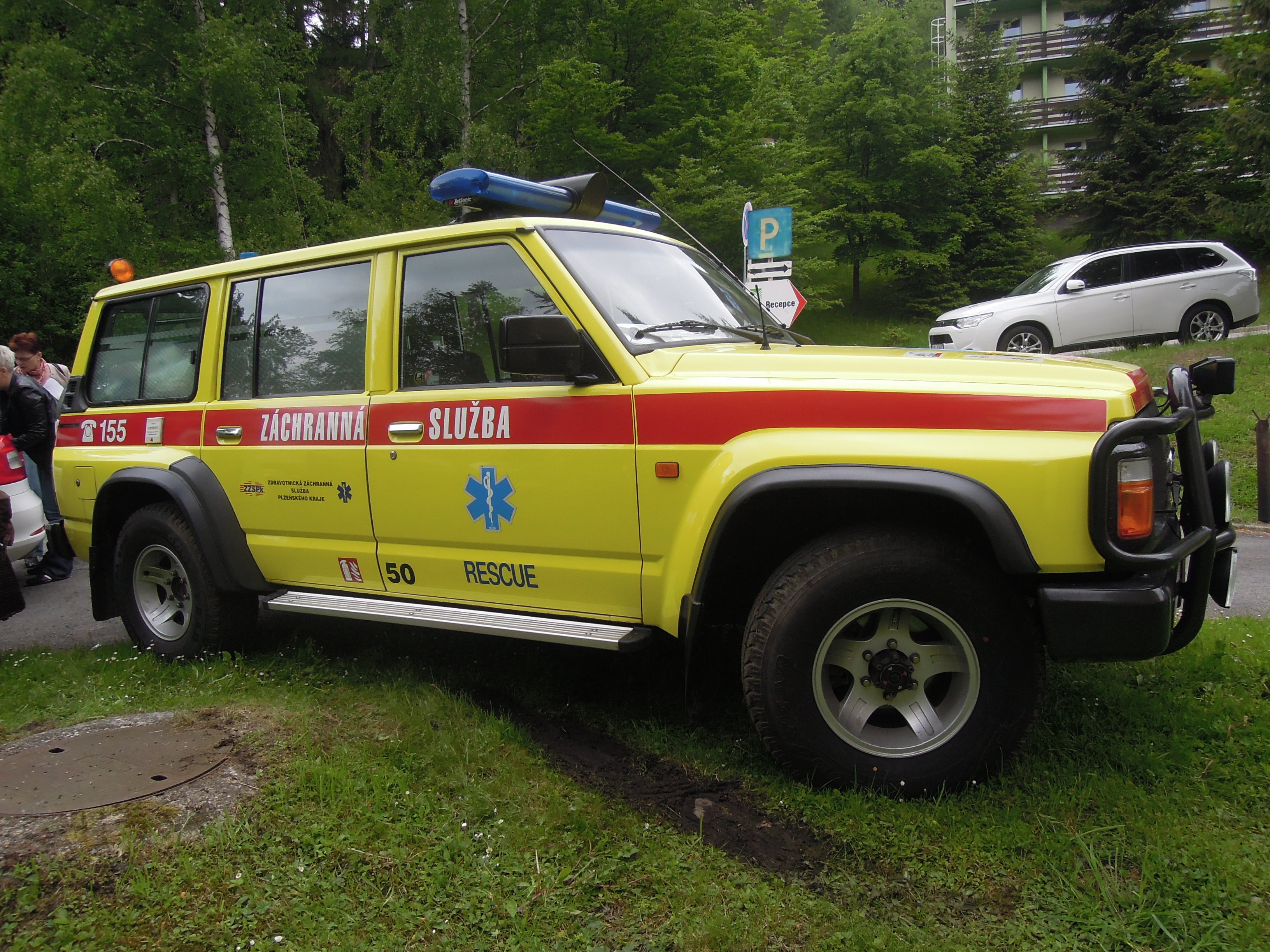 Nissan Patrlo ambulance of Zdravotnická záchranná služba Plzeňského kraje. Photo was taken during the international competition Rallye Rejvíz 2013 in Kouty nad Desnou, Olomouc Region, Czech Republic